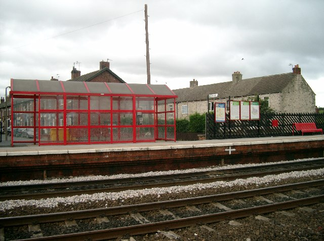 Micklefield Station. Micklefield Station is just before the line splits for York or Selby.